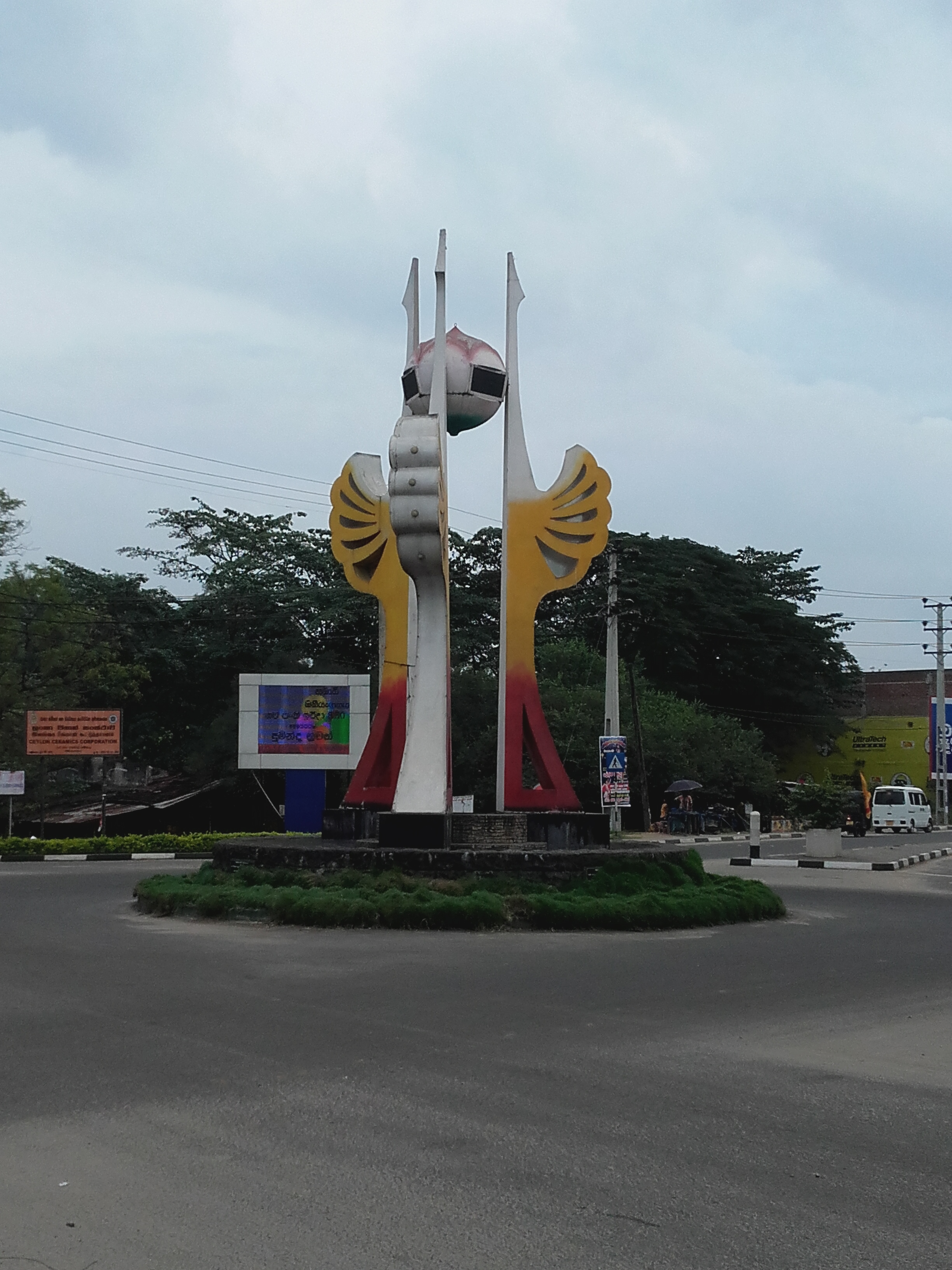 Mahiyangana Clock Tower, Sri Lanka